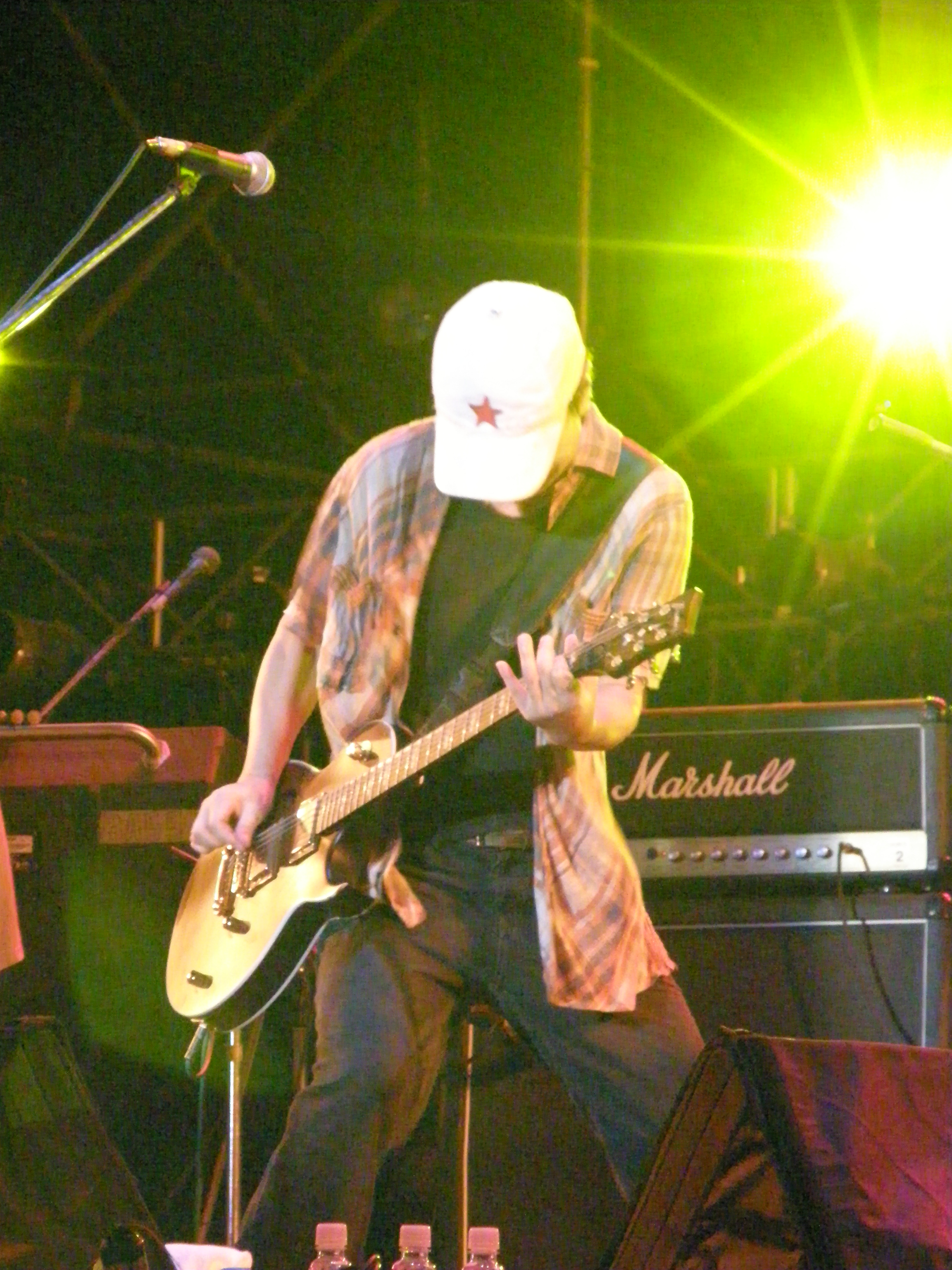 Cui Jian at the 2007 Hohaiyan Gongliau Rock Festival